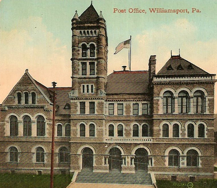 Williamsport postcard